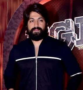 Yash at the trailer launch event of the movie K.G.F: Chapter 1, held in Mumbai.